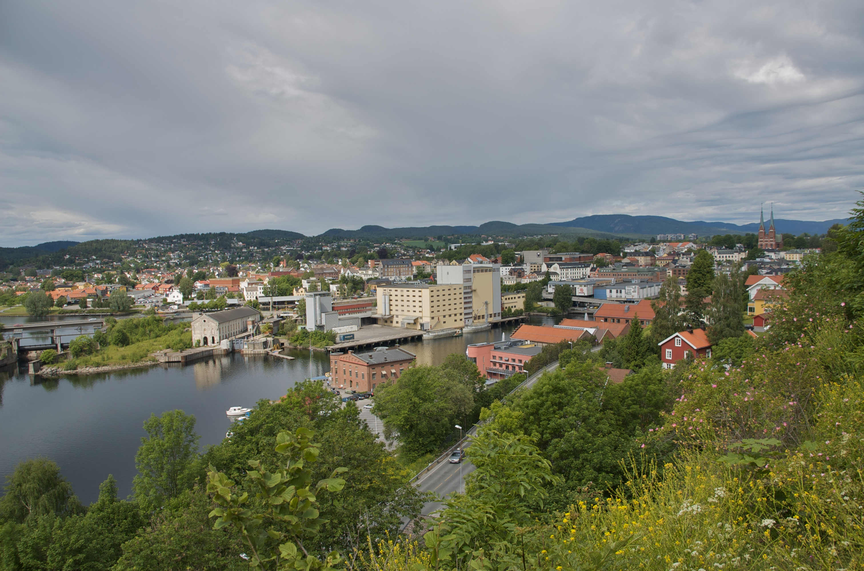 Town centre of Skien, Norway. Seen from east to west.